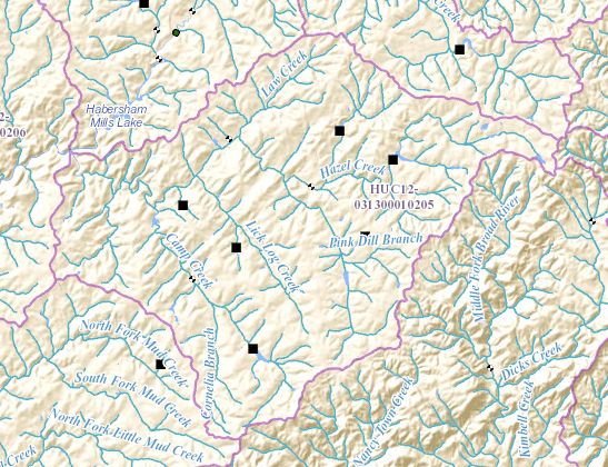 HUC 031300010205 - Hazel Creek. Map showing Hazel Creek flowing from the northeast to the northwest, where it joins the Soque River in the northwestern-most corner of the sub-watershed.